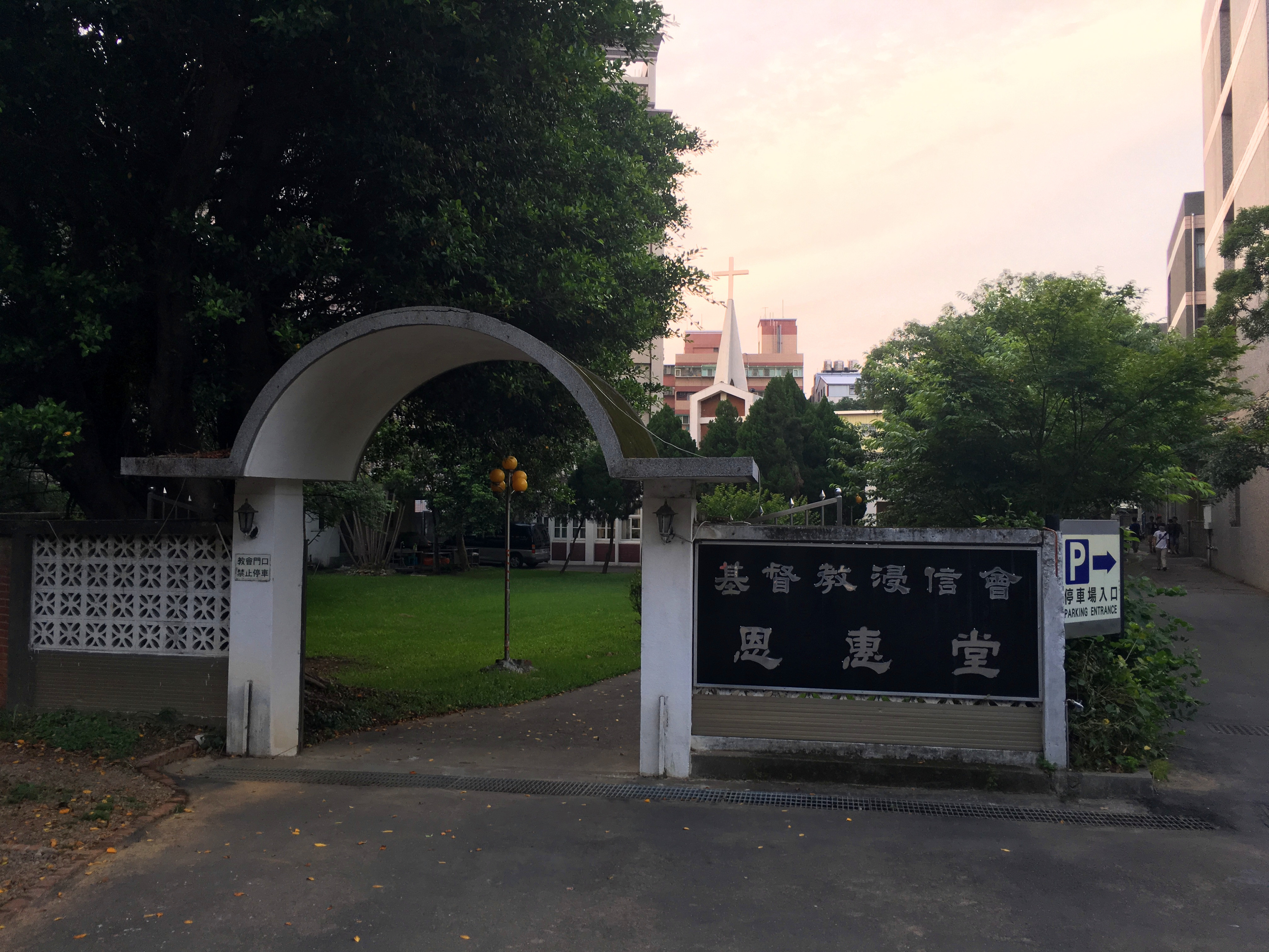 Grace Baptist Church, Zhongli District, Taoyuan City.